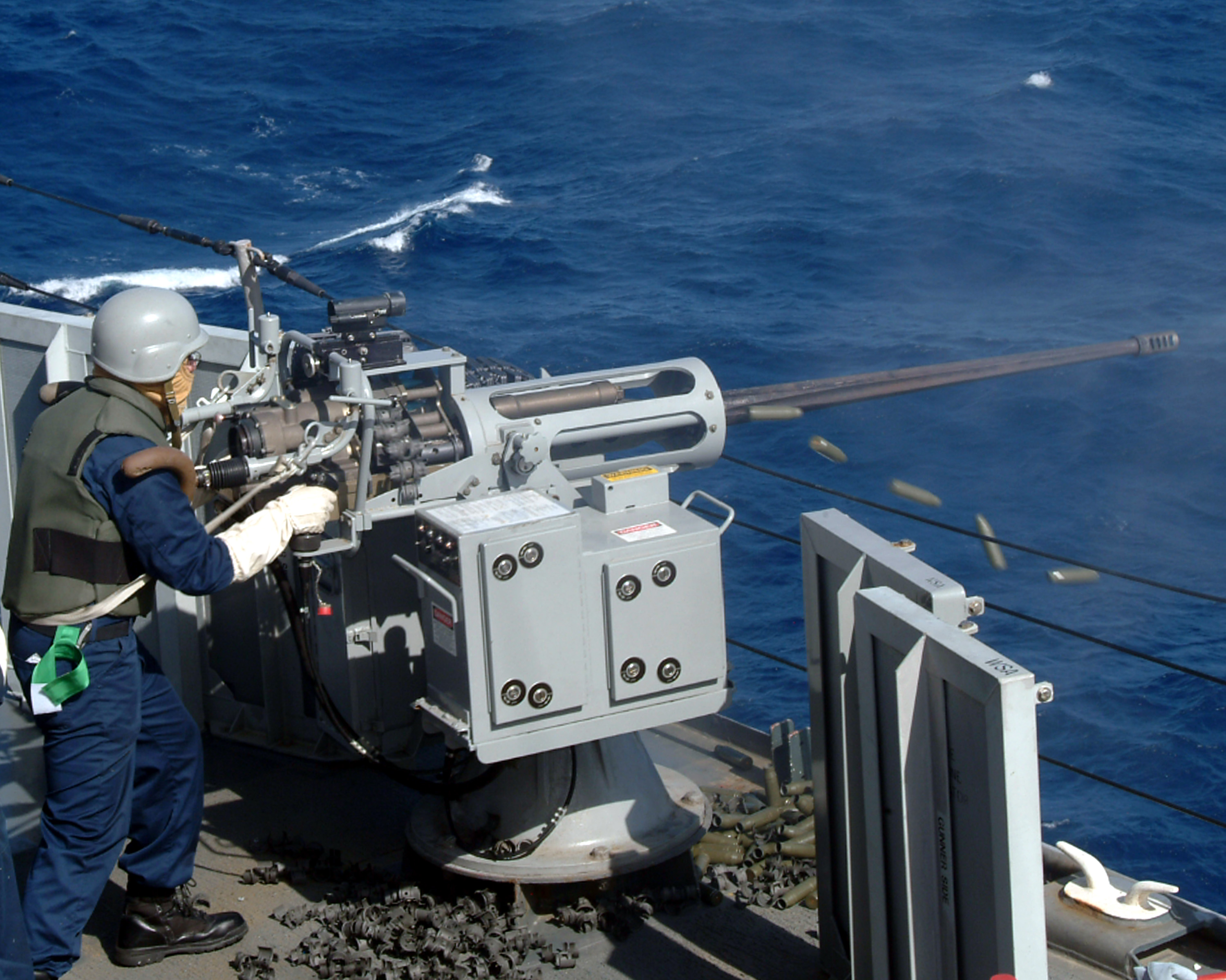 Sea of Japan (Dec. 10, 2004) - Gunner's Mate Seaman Daniel A. Wright fires an Mk-38 25mm machine gun during a general quarters (GQ) drill aboard the dock landing ship USS Fort McHenry (LSD 43). The Mk-38 25mm machine gun system is a single-barrel, air-cooled, heavy machine gun capable of firing 175 rounds per minute. Fort McHenry is currently enroute to the Philippines in support of the United States humanitarian assistance and relief efforts on the east coast of Luzon after a series of typhoons devastated the area. U.S. Navy photo by Photographer’s Mate Airman Marvin E. Thompson, Jr. (RELEASED)